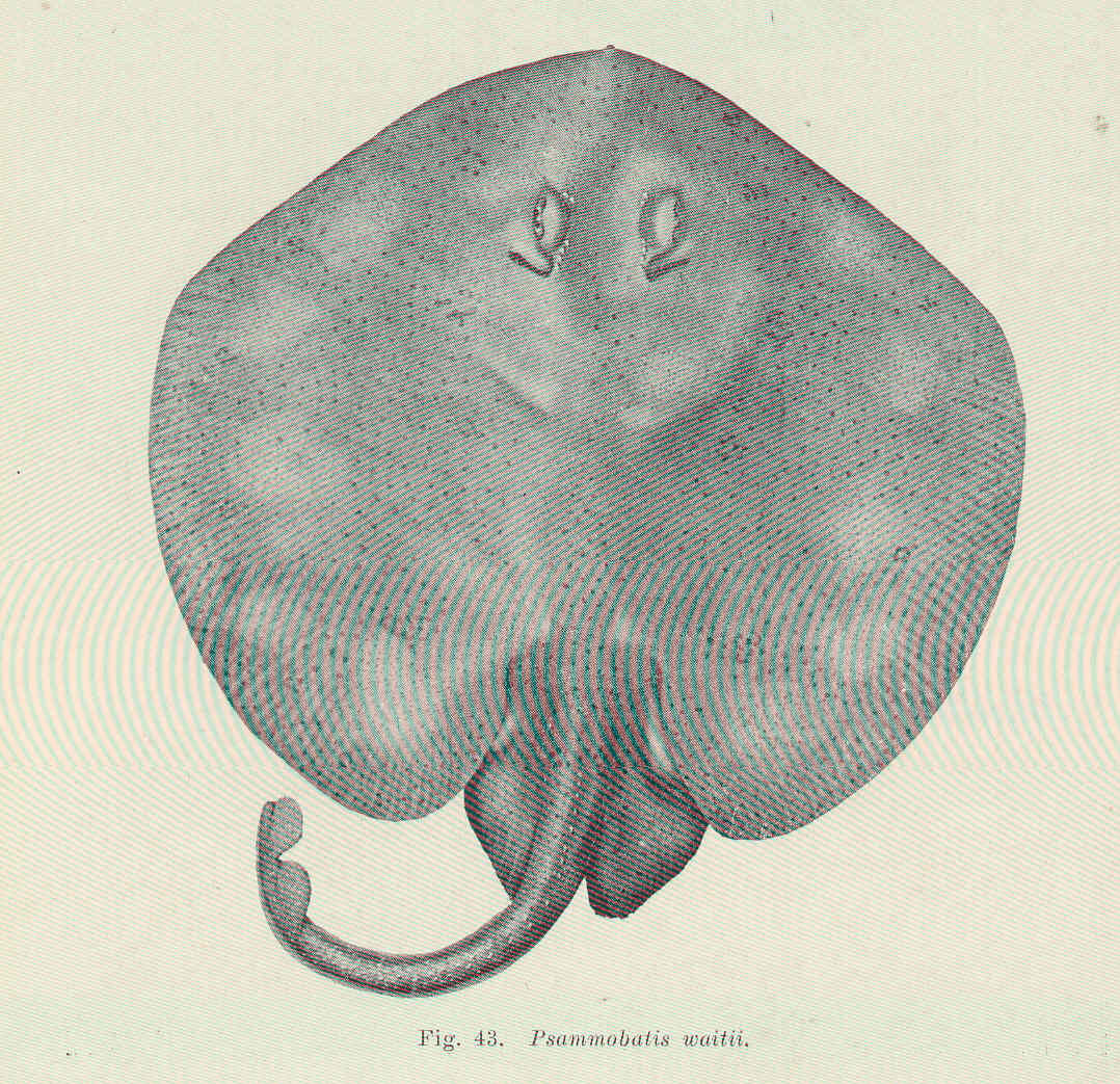 Psammobatis waitii Subject: Rays (Fishes), Psammobatis Tag: Fish